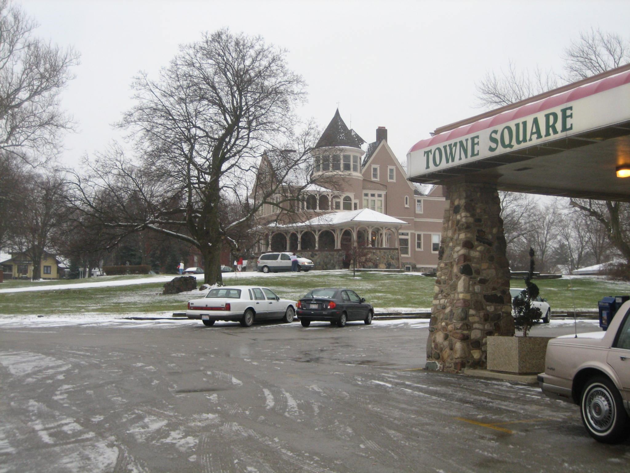 Frederick Townsend Residence, Sycamore, Illinois. 107 W. Exchange St. National Register of Historic Places as part of the Sycamore Historic District.